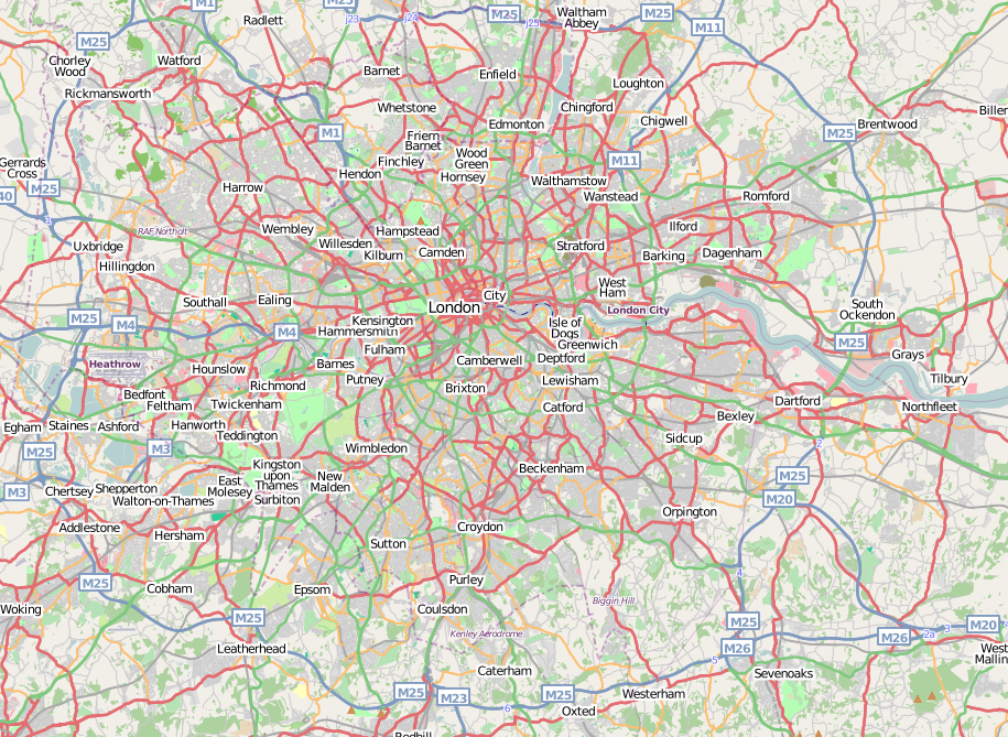 This map may be incomplete, and may contain errors. Don't rely solely on it for navigation.